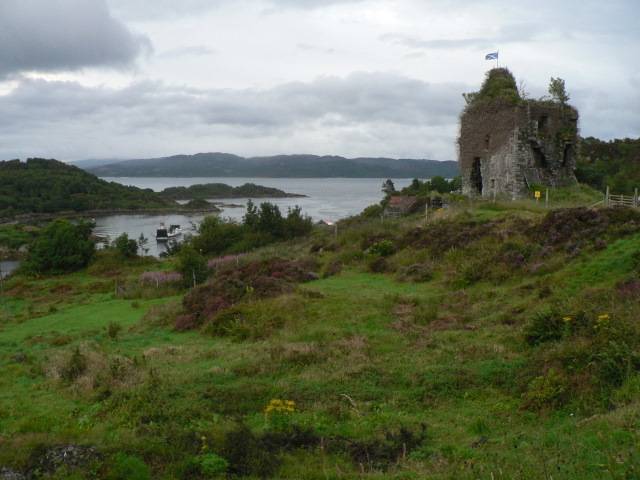 Tarbert Castle, over Tarbert, in Argyll and Bute, Scotland.